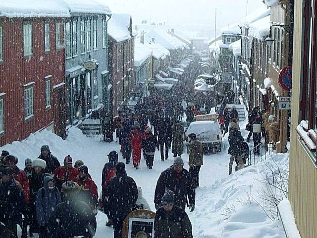 The traditional winter market in Røros. The temperature was about −25 °C (−13 °F)